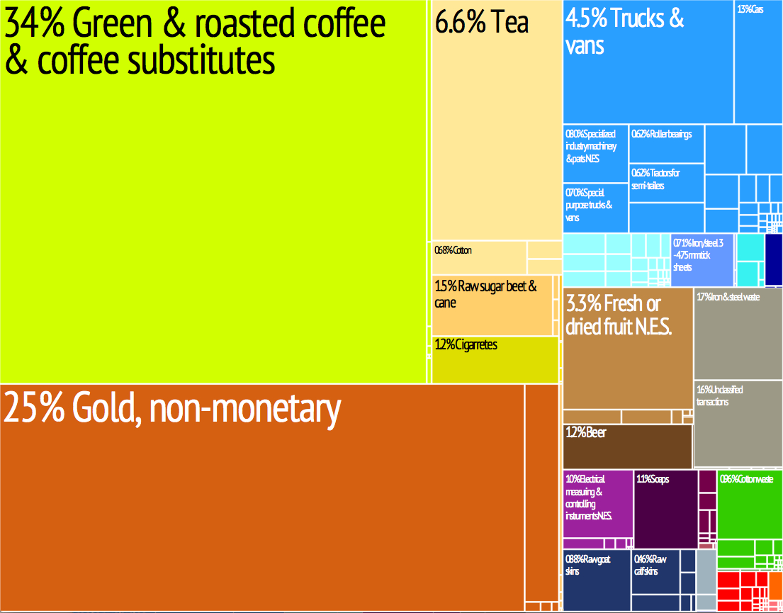 Export Trading Treemap. From MIT/Harvard Atlas of Economic Complexity